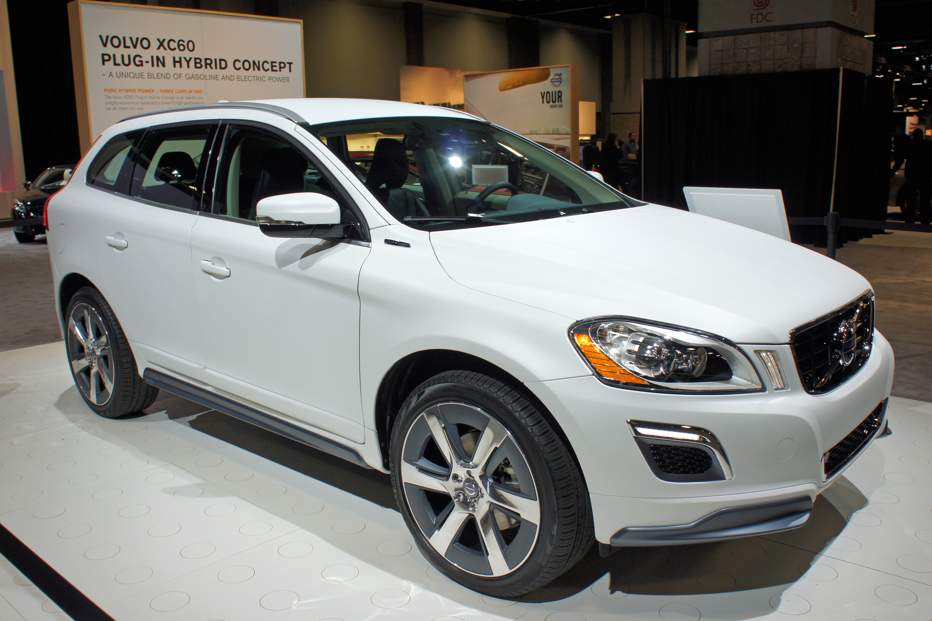 Volvo XC60 Plug-in Hybrid exhibited a the 2012 Washington Auto Show, District of Columbia.